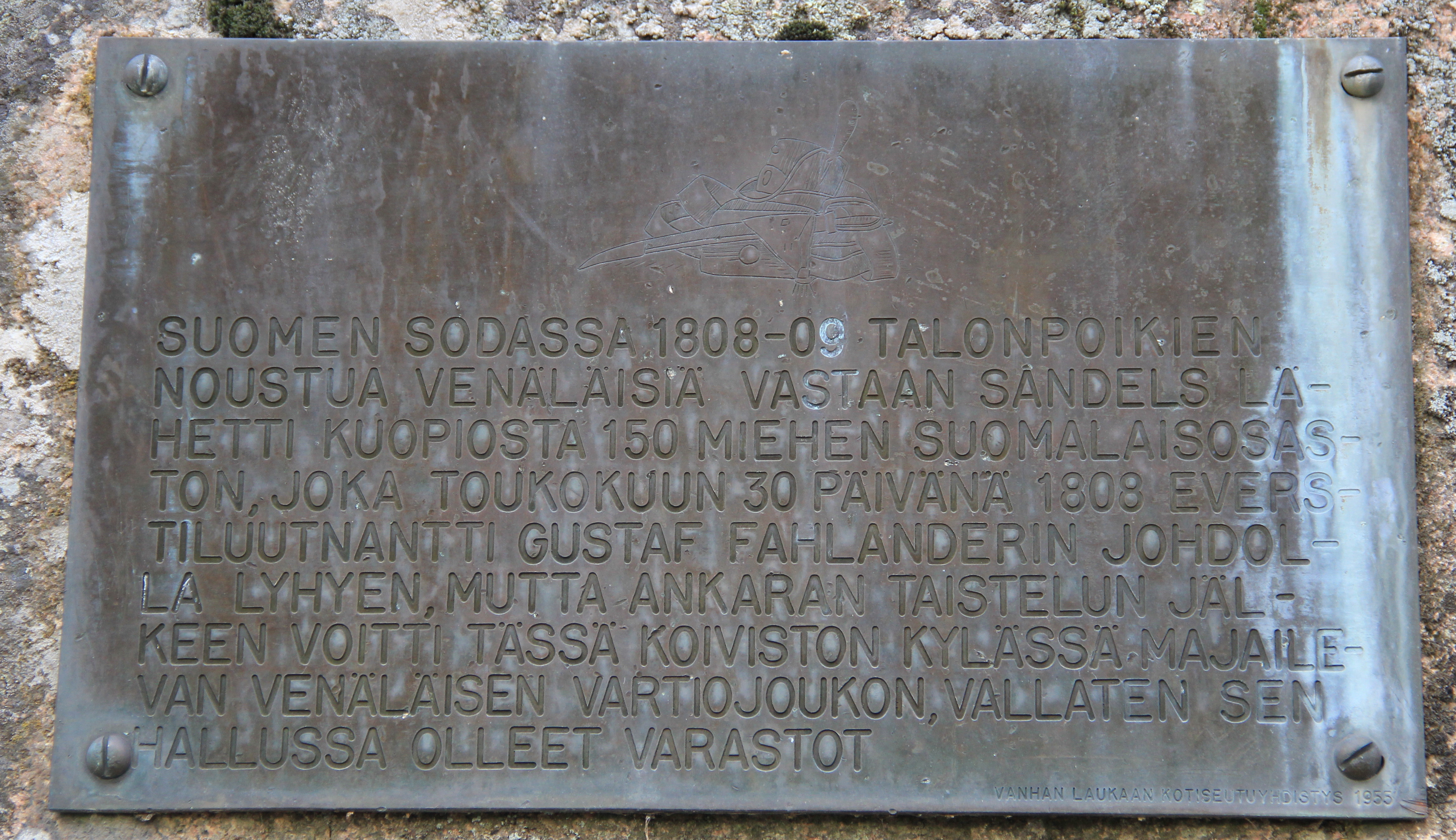 Venäläiskivi ("Russians's stone"), Koivistonkylä, Äänekoski, Finland. - Plaque.